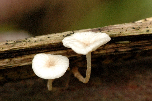 Marasmiellus ramealis from Commanster, Belgium. The determination of the species shown in this picture has been verified.